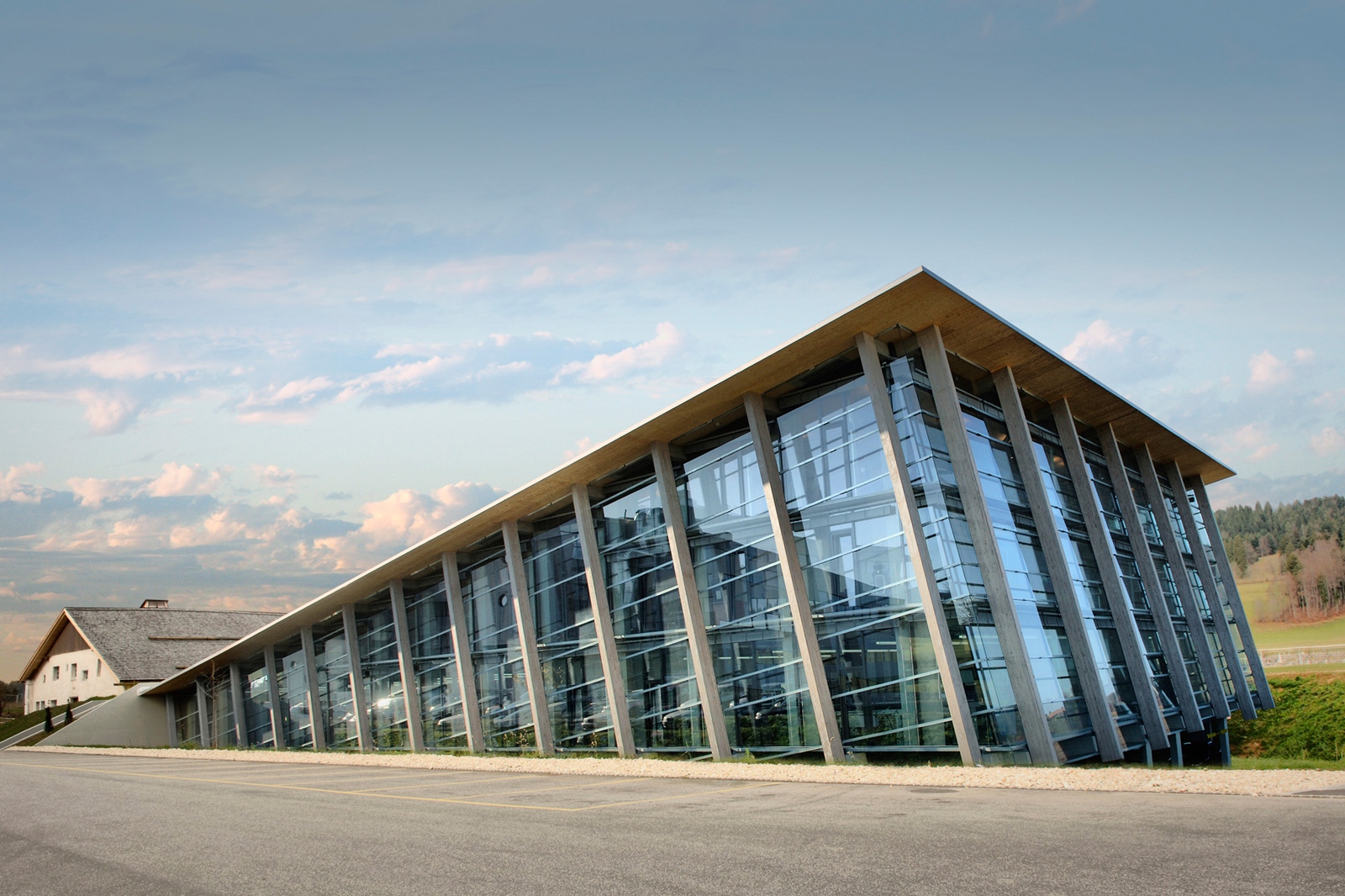 Directly joining the Farmhouse is the The Greubel Forsey manufacture was,designed by architect Pierre Studer and houses the watchmaking ateliers and production and design departments. Symbolically rising from the ground, the distinctive ecologically-friendly construction is topped by a sloping grass roof, especially conceived with the creation and realisation of Greubel Forsey’s timepieces in mind. The building’s facades are comprised of a double glass skin that creates a natural thermal buffer. In summer, air is evacuated upwards, creating a cooling breeze, while in winter, air is trapped to serve as an insulator. Inside, exposed concrete has been chosen for its thermal stability to minimise wide changes in temperature. Abundant natural light enters through both the outer facades and the long central skylight into the workspaces and central atrium.